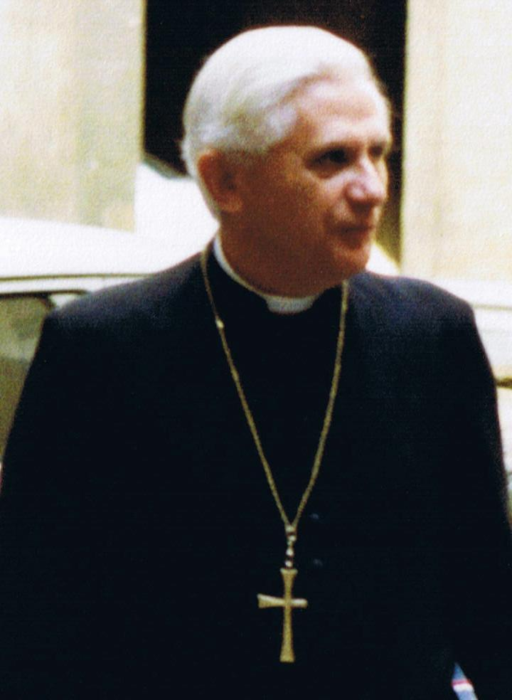 Cardinal Joseph Ratzinger in Rome (Sant'Uffizio).